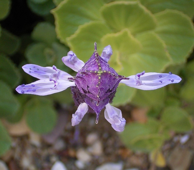 Plectranthus arabicus